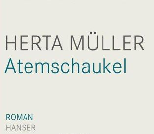 Book cover (part) of Herta Müller "Atemschaukel" 2009